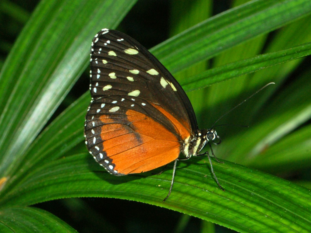 Tithorea tarricina - Butterfly Conservatory, Niagara Falls